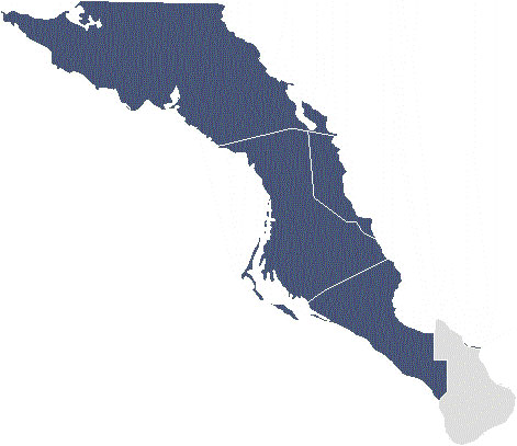 Map of the Second Federal Electoral District of the State of Baja California Sur, México.